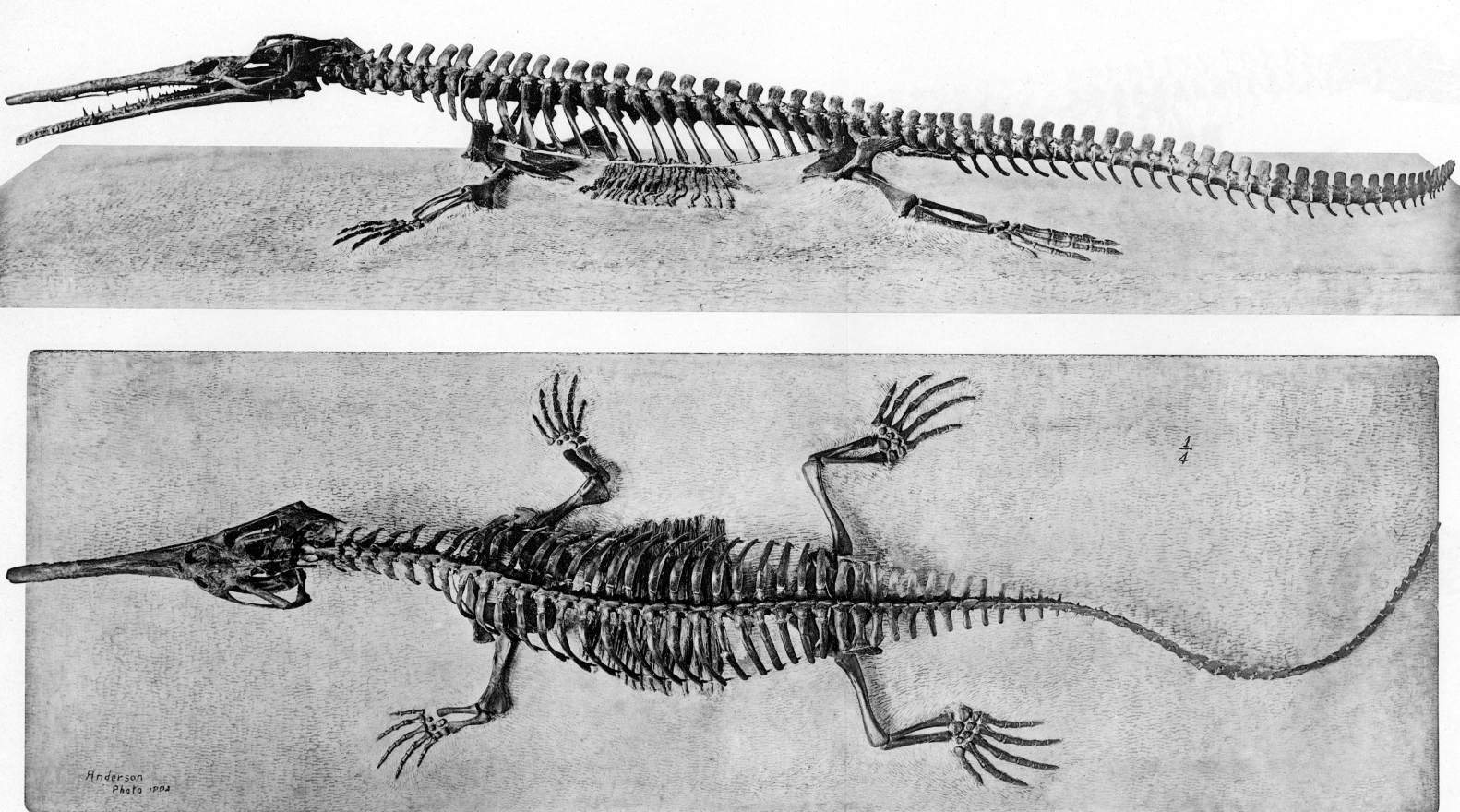 Champsosaurus laramiensis skeleton, American Museum.